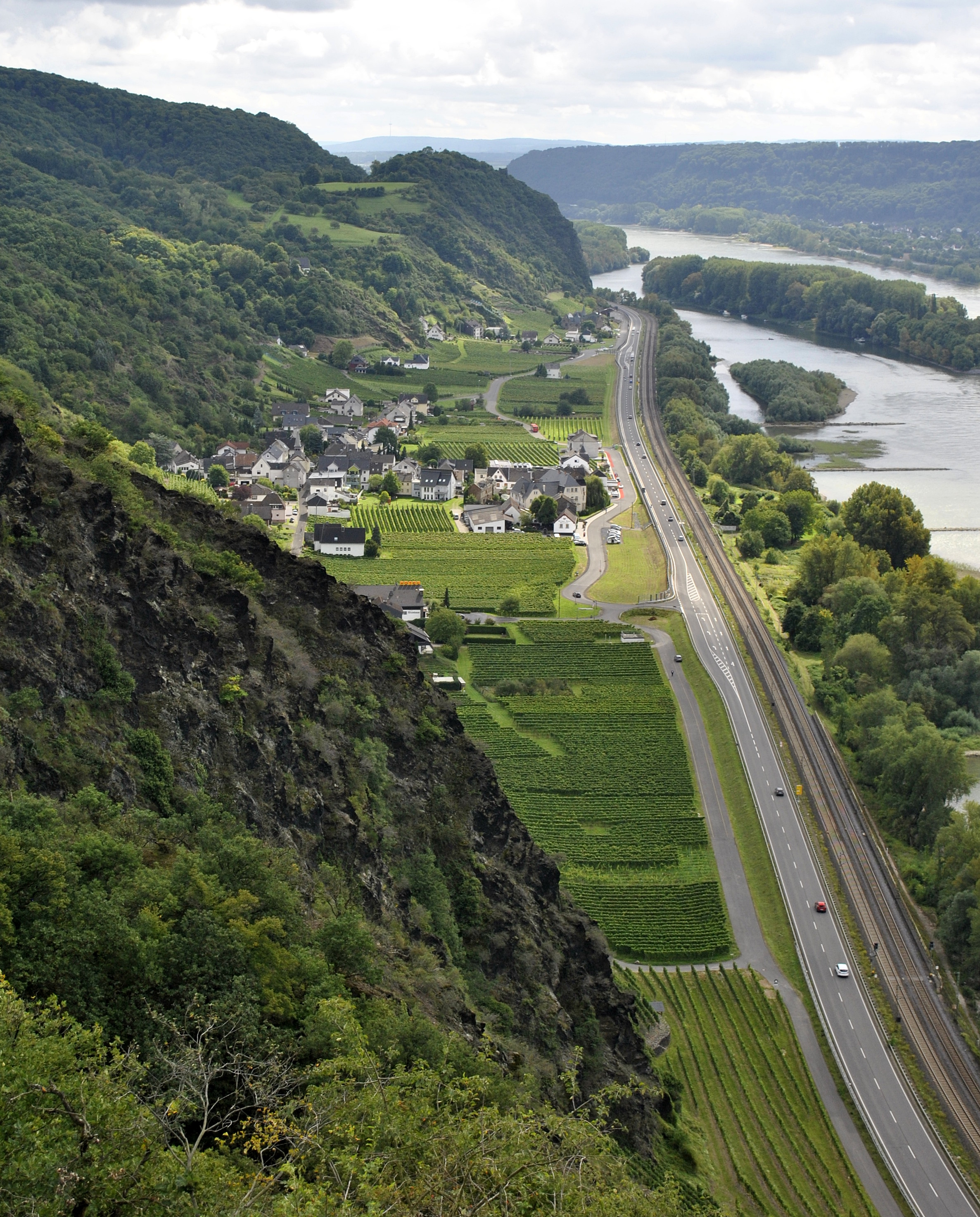 Hammerstein seen from Rheinbrohler Ley.